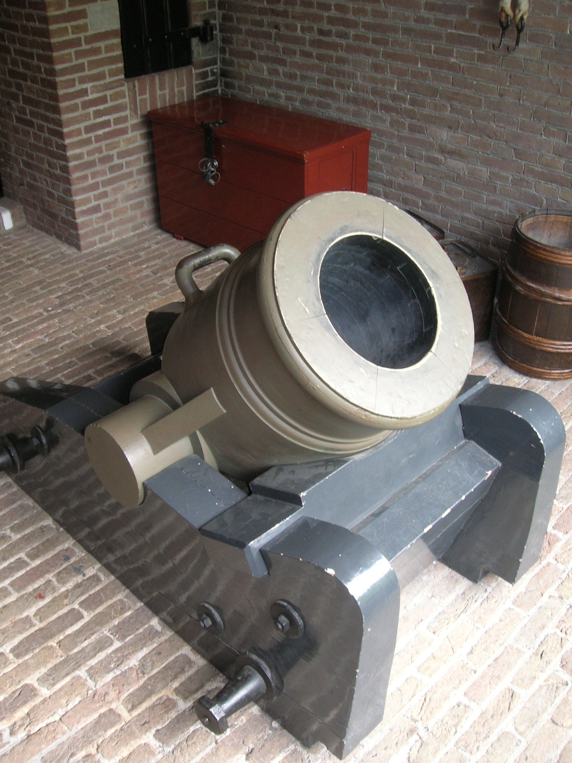 Museum model of 29cm mortar